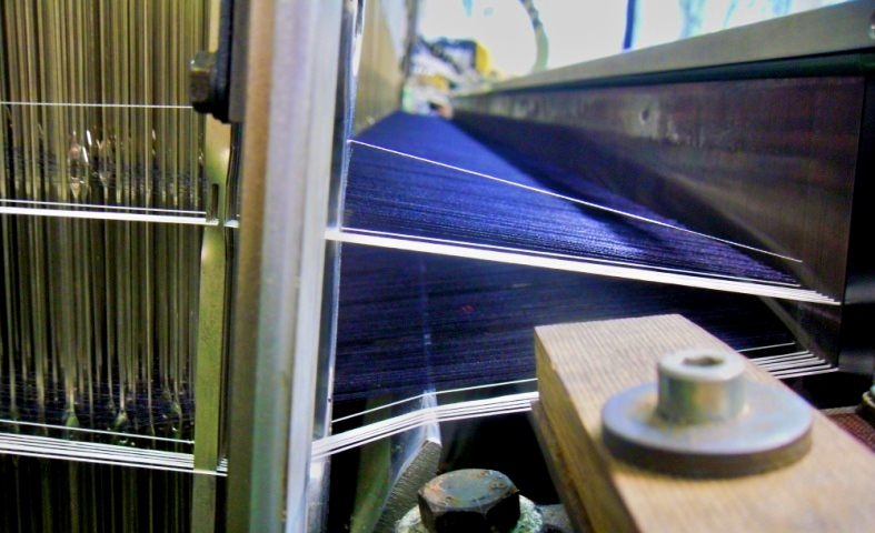 shed of a weaving machine